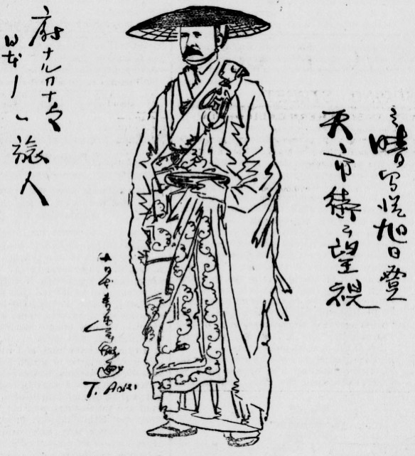 Sketch of Los Angeles politician and civic leader Henry T. Hazard — by Japanese-born artist Toshio Aoki, 1895. With Hazard dressed in Japanese clothing. He was Mayor of Los Angeles from 1889-1892, and a prominent civic leader in the city.